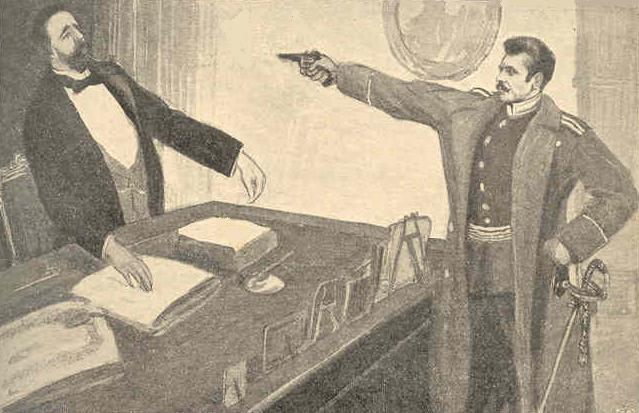 The Finnish activist Lennart Hohenthal (1877–1951) murders Eliel Soisalon-Soininen (1856–1905) in his home in Helsinki, Finland 6th February 1905.